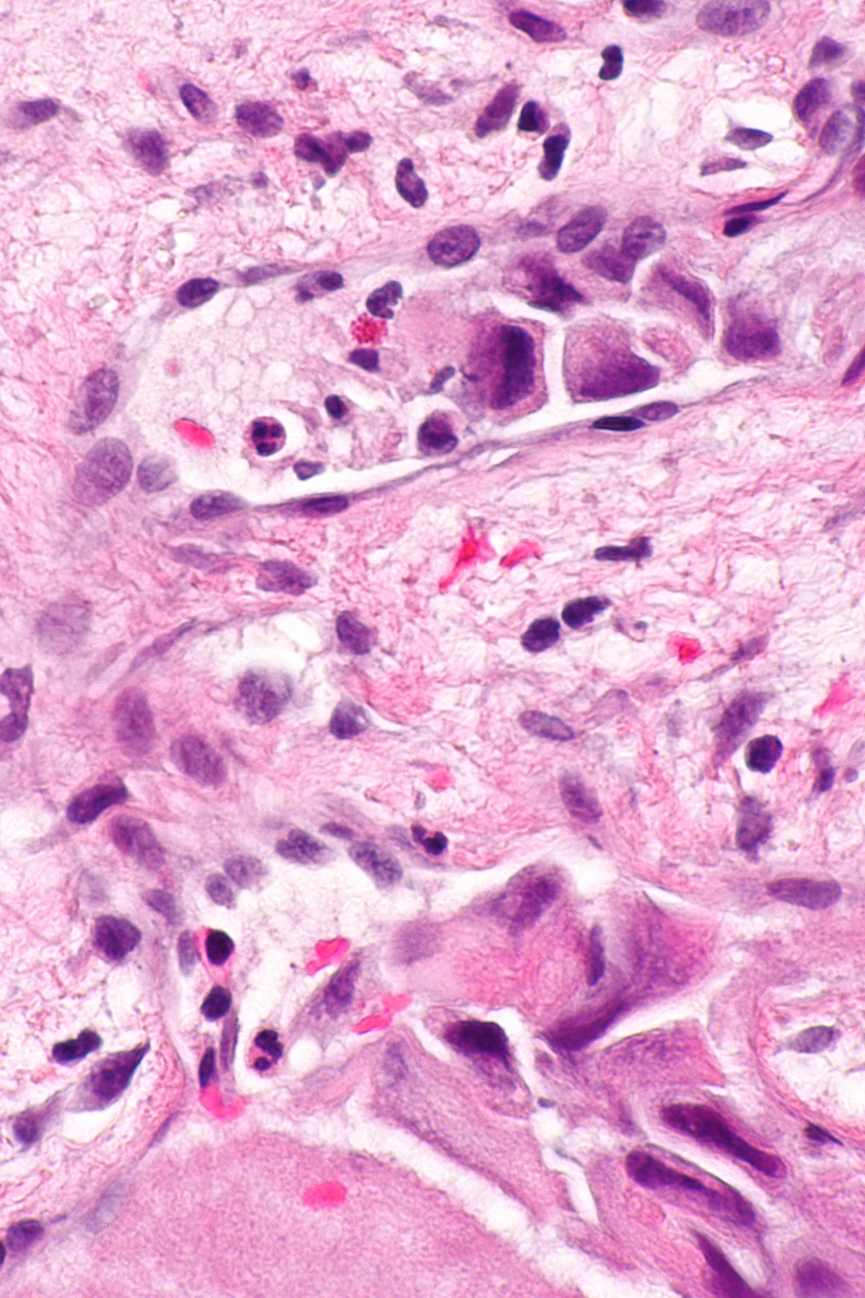 Micrograph showing moderately differentiated invasive squamous cell carcinoma of the larynx with lymphovascular invasion. H&E stain. Related images SCC - intermed. mag. SCC - high mag. SCC - very high mag. SCC - intermed. mag. SCC - high mag. SCC - very high mag.